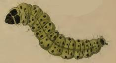 Stainton’s Natural History of the Tineina (1855–1873): Exaeretia culcitella